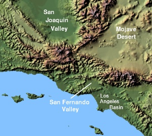 Greater Los Angeles Basin